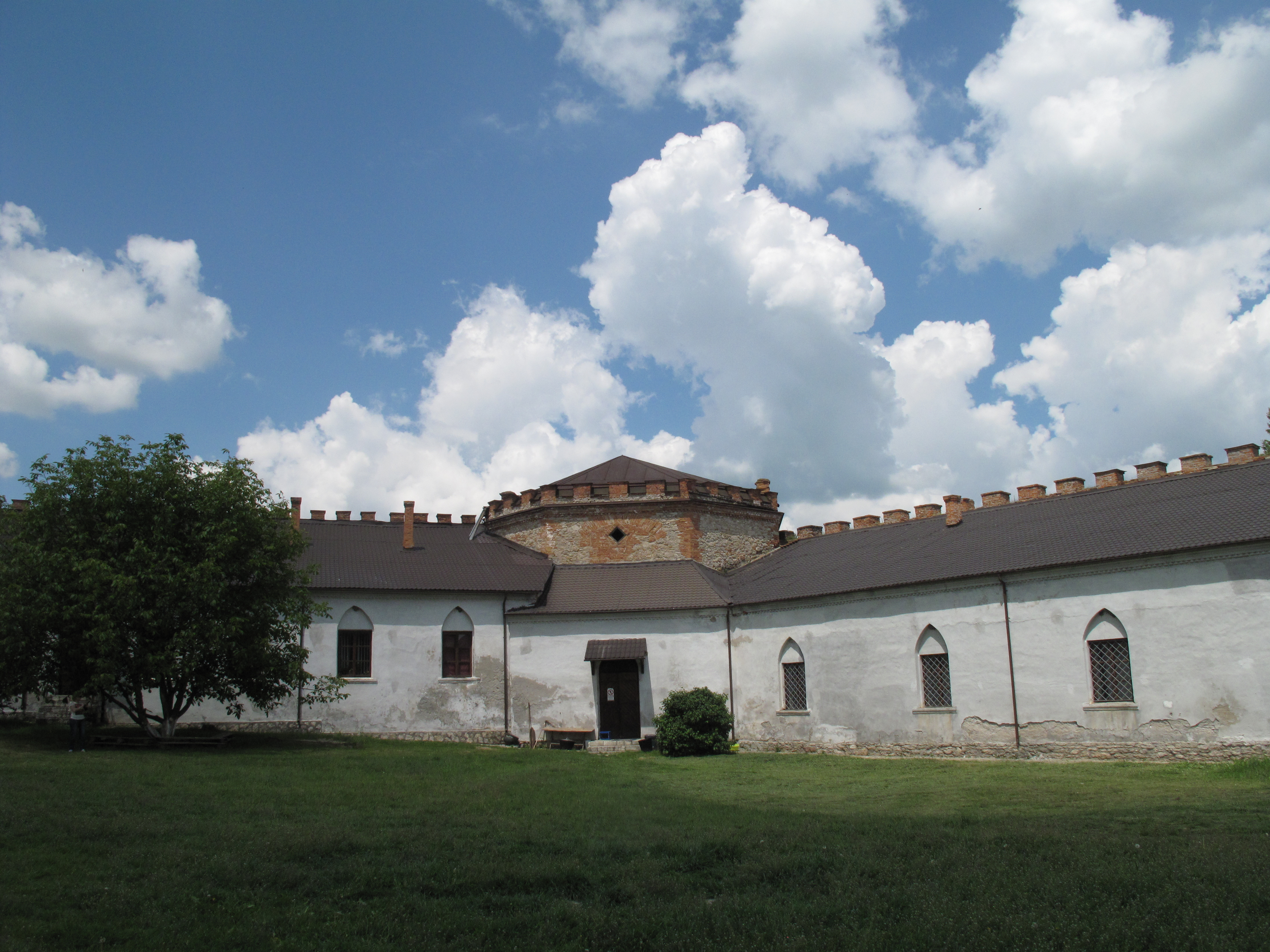 North Tower of Medzhybizh сastle